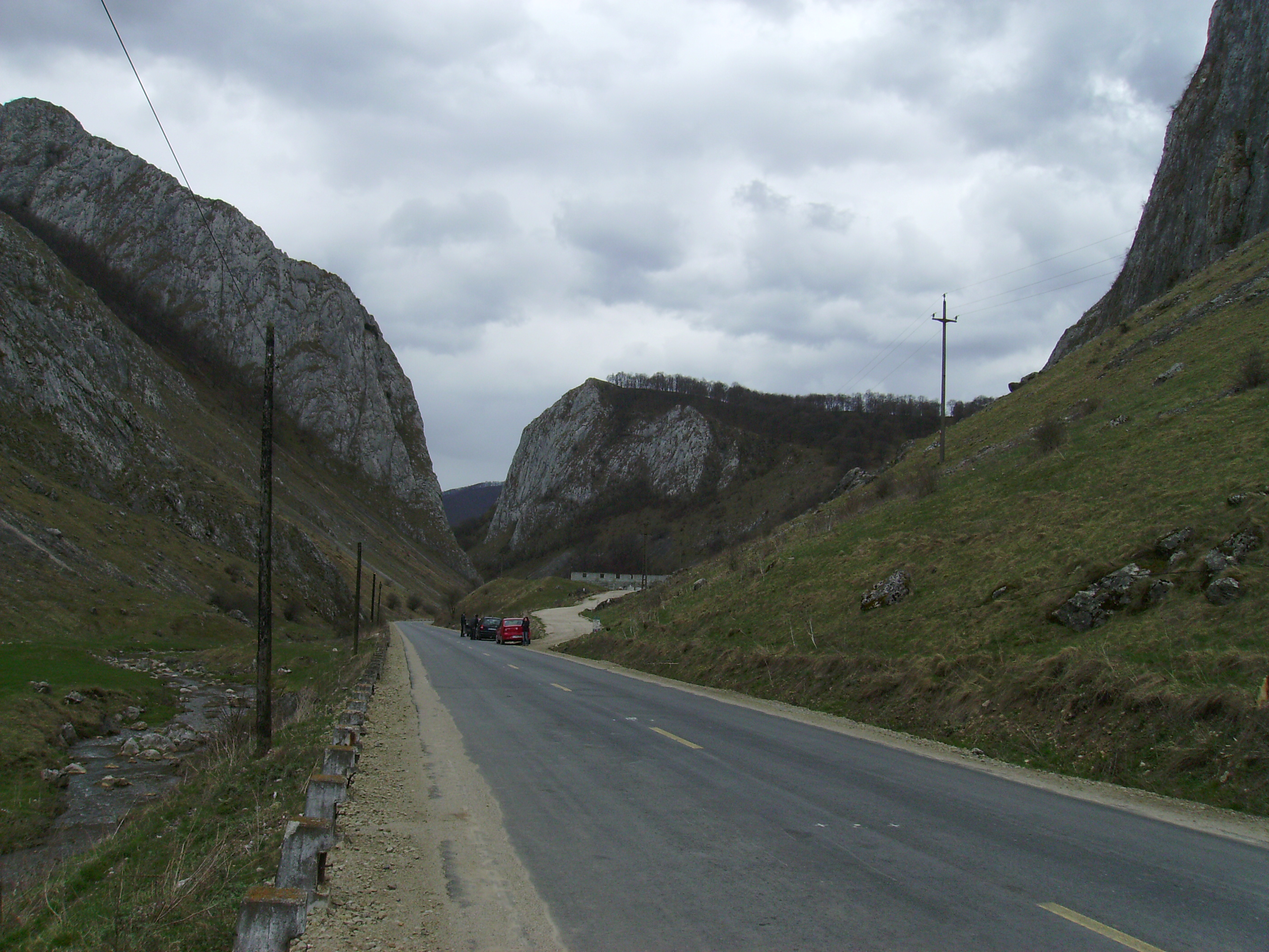 Cheile Aiudului (known also as "Cheile Vălişoarei"), Transylvania, Romania